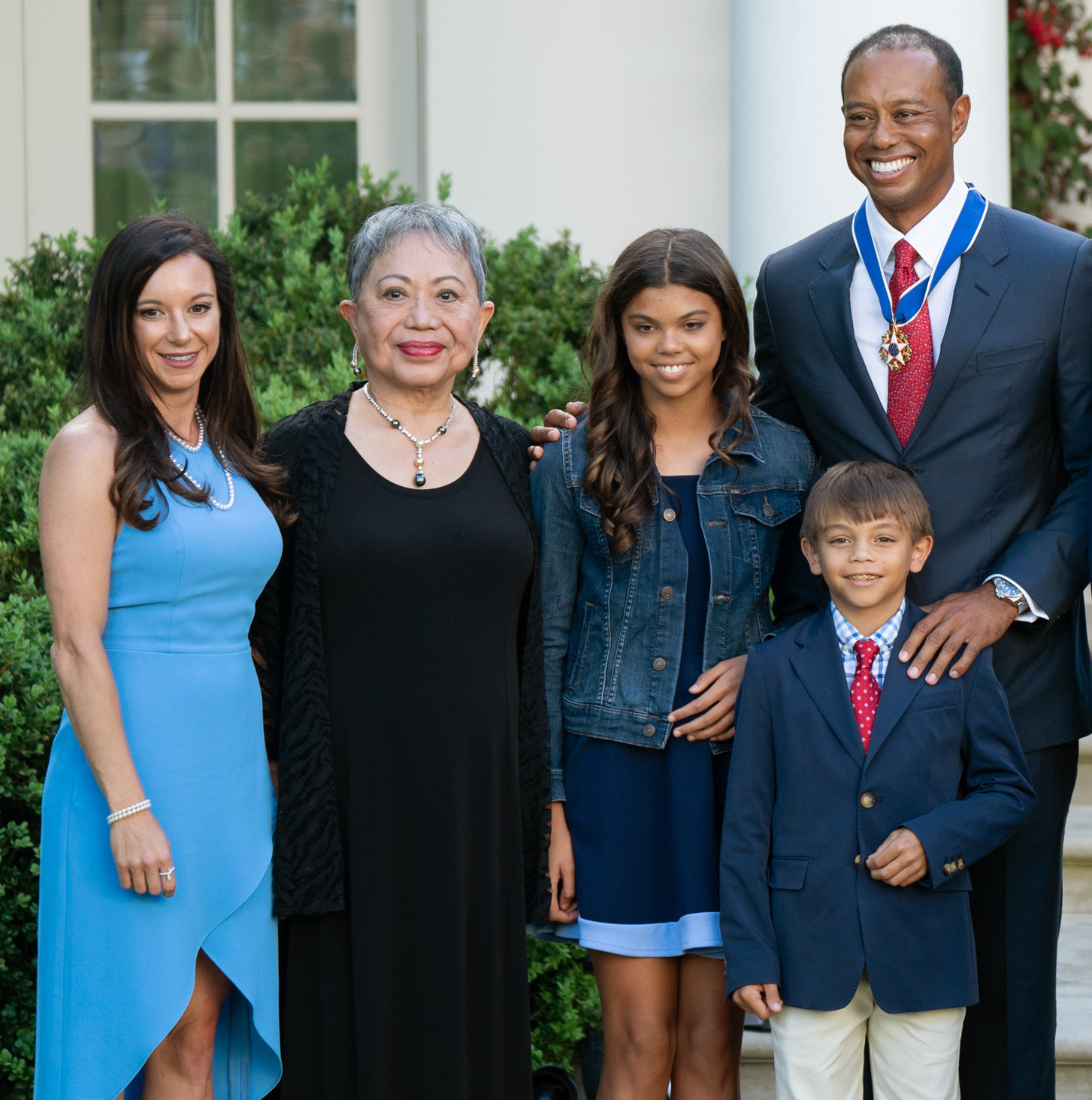 President Donald J. Trump and First Lady Melania Trump pose for a photo with Presidential Medal of Freedom recipient Tiger Woods and his family Monday, May 6, 2019, in the Rose Garden of the White House. The recipient’s family from left, girlfriend Erica Herman, mother Kultida Woods, daughter Sam Woods, son Charlie Woods and Tiger Woods. (Official White House Photo/ Shealah Craighead (1976–) DescriptionAmerican photographer and photojournalistDate of birth 25 September 1976 Location of birth Connecticut Work location Washington, D.C. Authority control : Q28536820 VIAF: 14152820076400680290 LCCN: no2018071926 WorldCat creator QS:P170,Q28536820 )